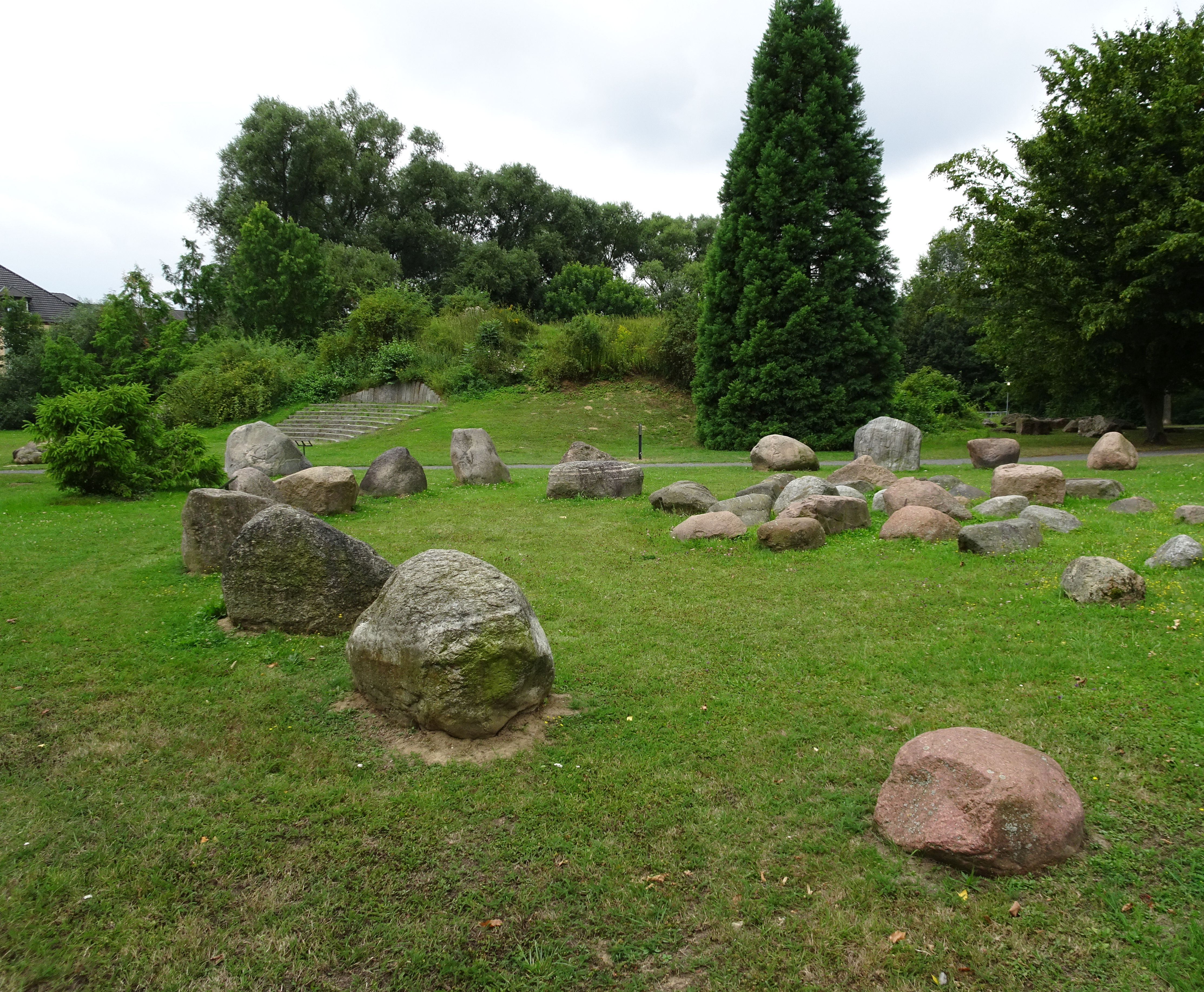 Glacial erratics in the garden of the Geoscience museum in Göttingen, found near Helmstedt and Leipzig